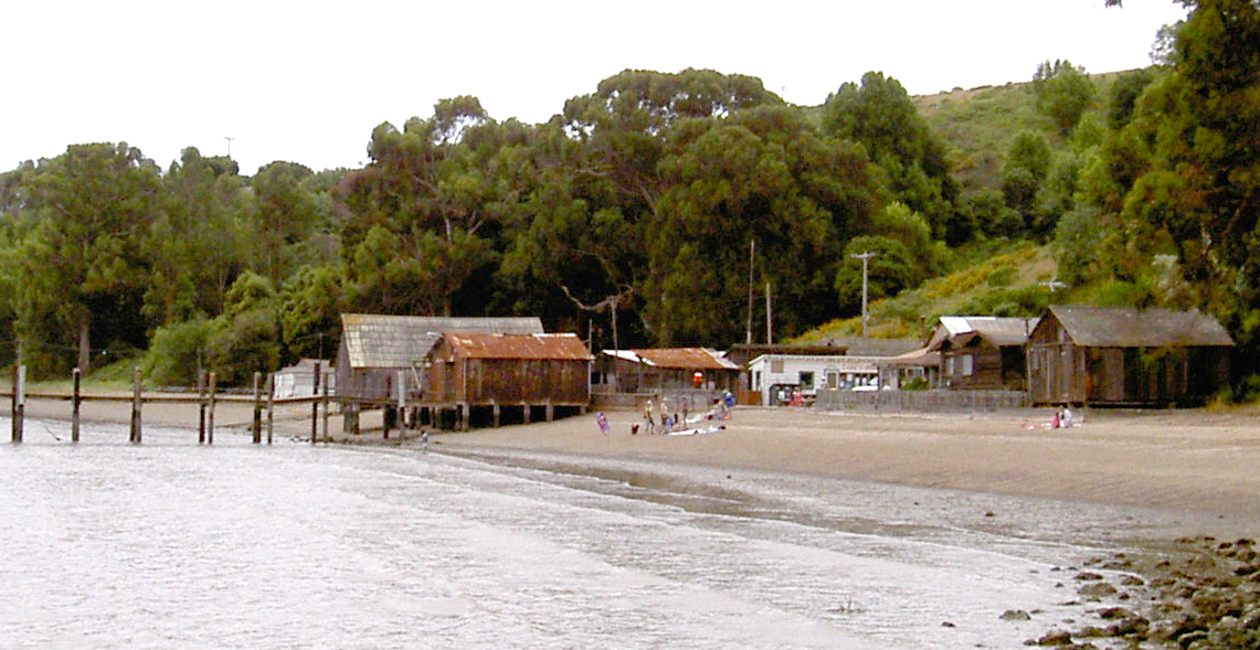 China Camp, Marin County, California as seen from the north